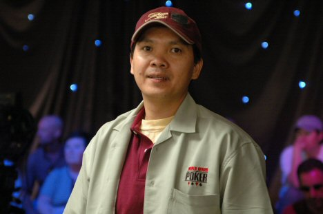 Minh Nguyen in 2005 World Series of Poker at Rio, Las Vegas.